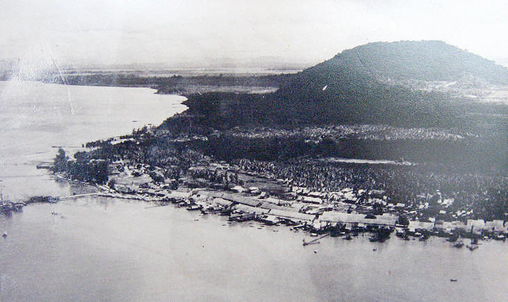 Aerial View of Tawau Town around 1947/1950.